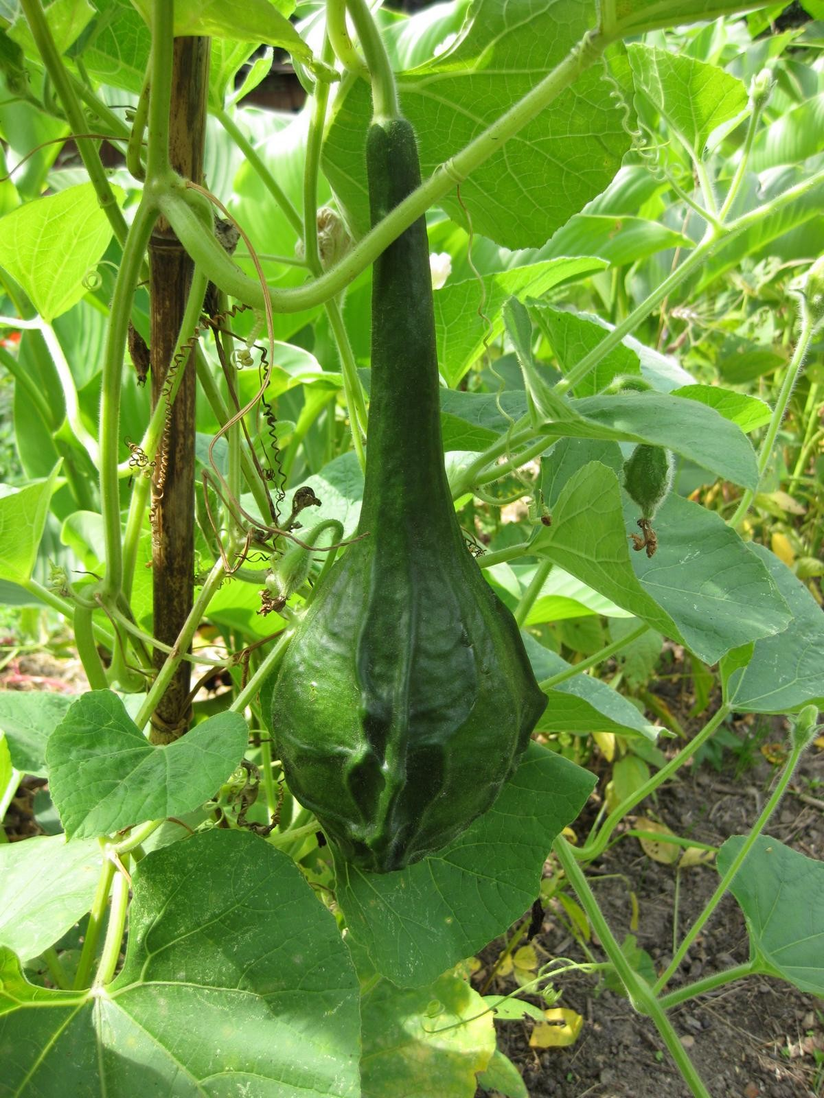 Photographed at Brooklyn Botanic Garden (New York) in September. It belongs to the Maranka type of the bottle gourd.